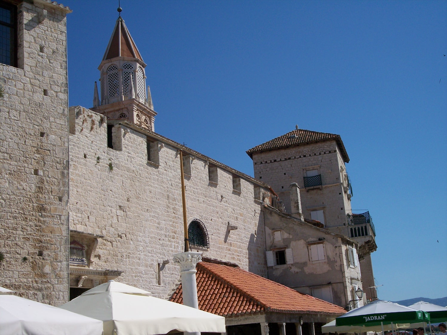 Trogir]